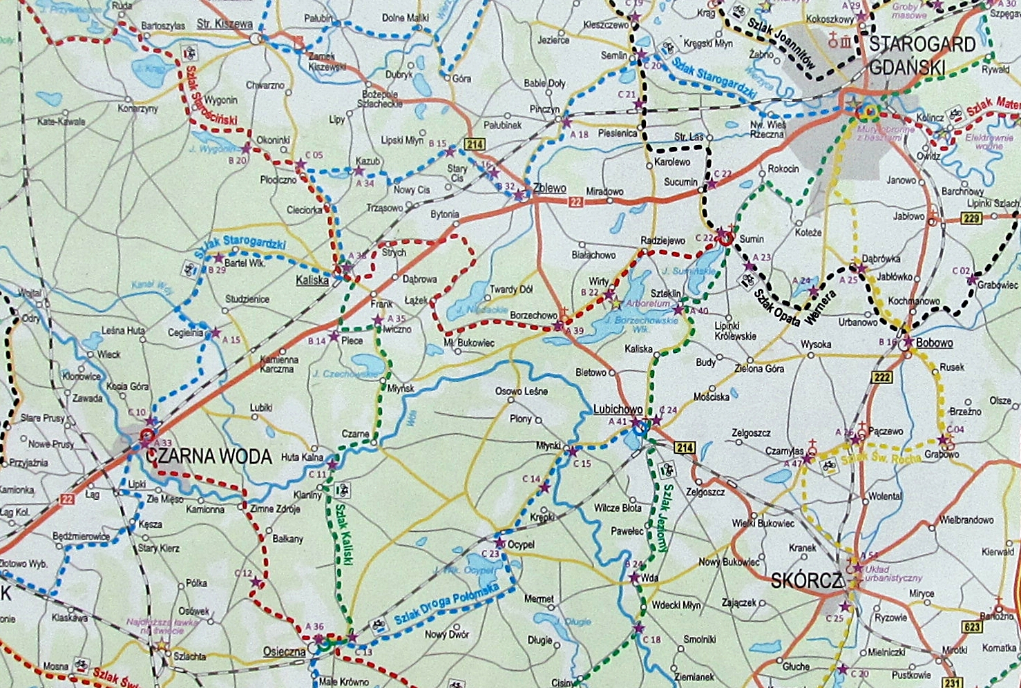 Bike Routes Kociewskie